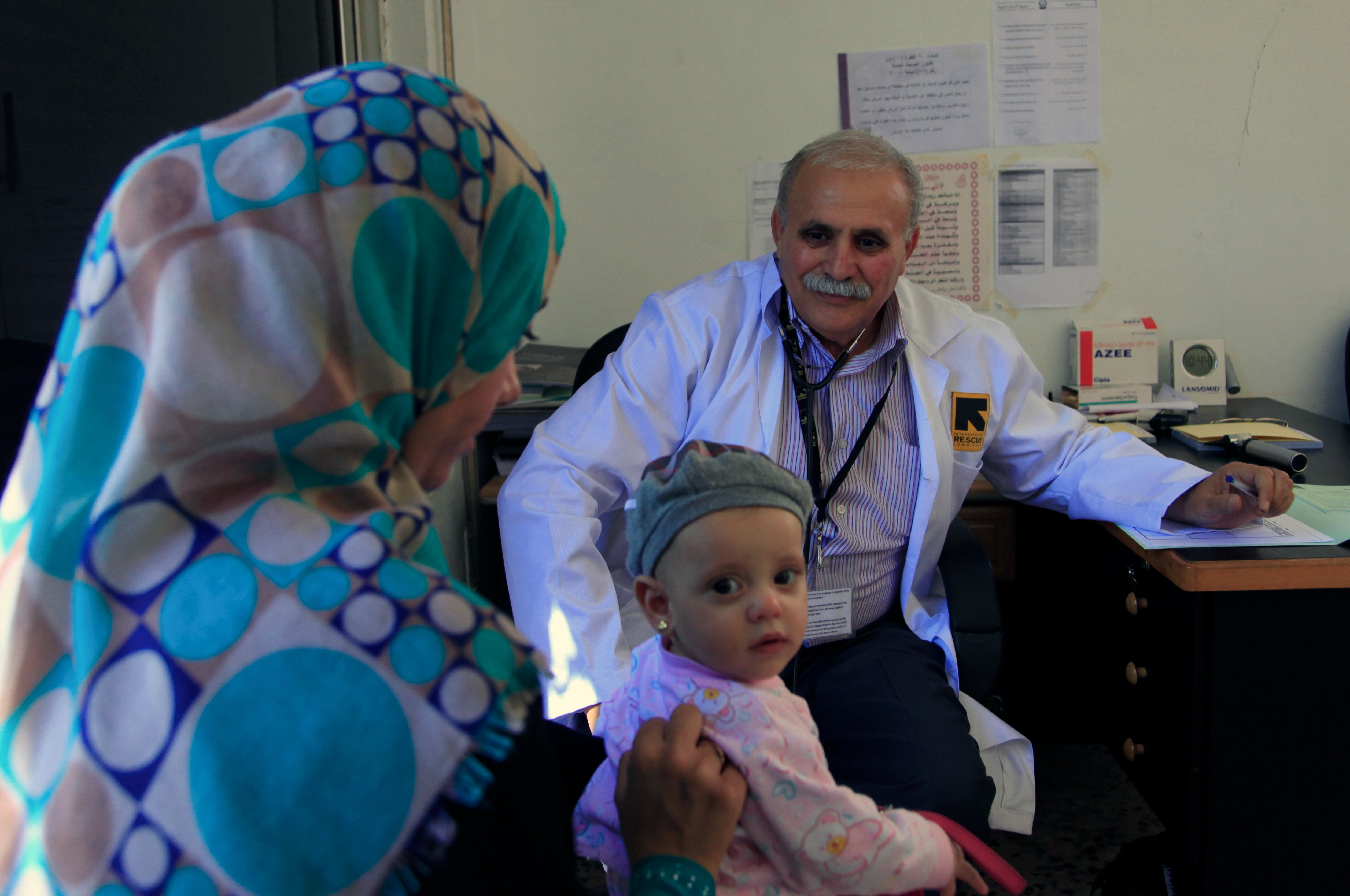 A doctor at an International Rescue Committee clinic in Ramtha, northern Jordan, conducts a check-up on a young Syrian refugee. The UK is supporting IRC to deliver medical aid and psycho-social support to thousands of Syrian refugees in Jordan and Lebanon. Find out more about UK support for the Syria humanitarian crisis Picture: Russell Watkins/Department for International Development